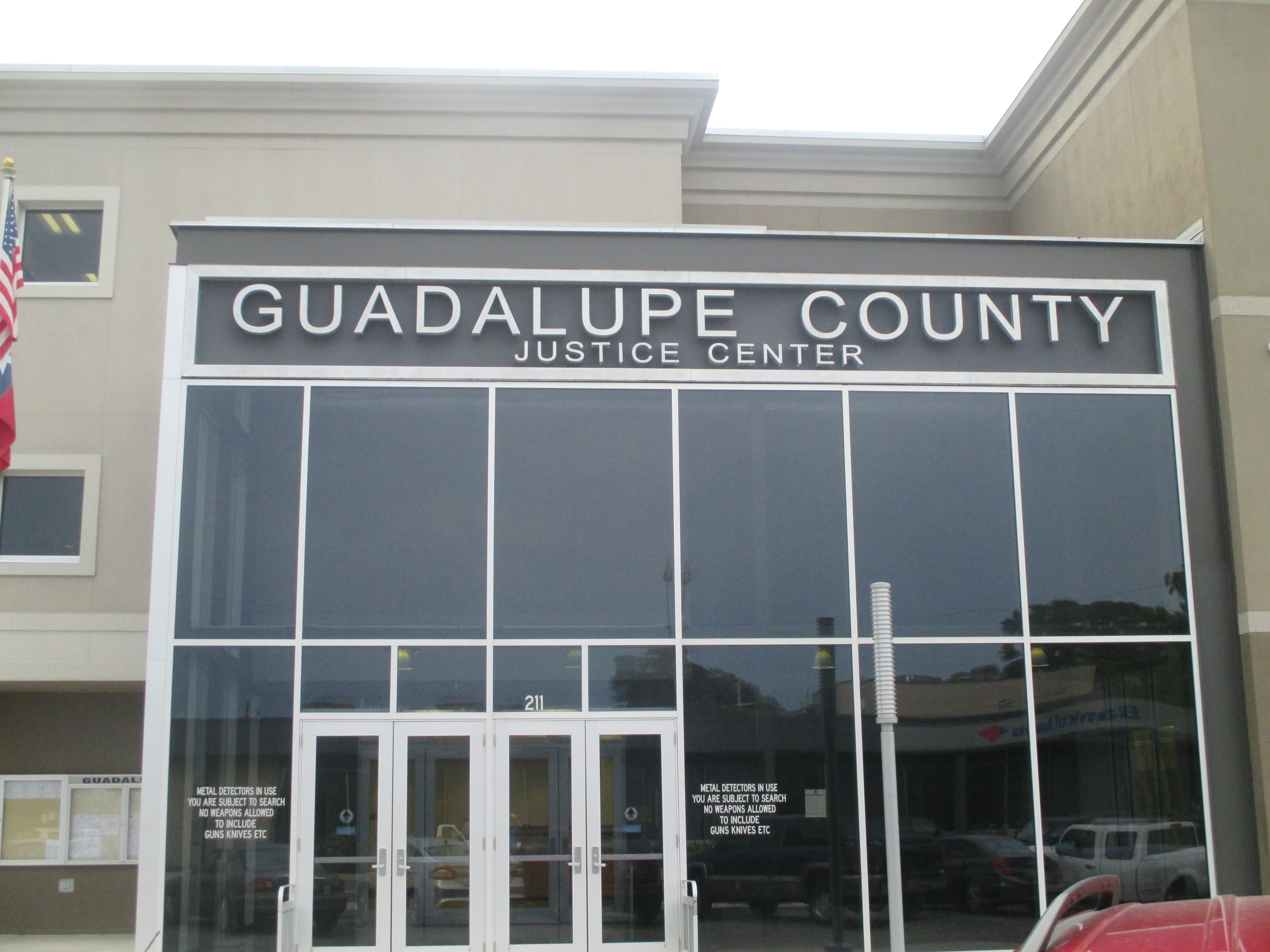 I took photo with Canon camera of Guadalupe County Justice Center in Seguin.